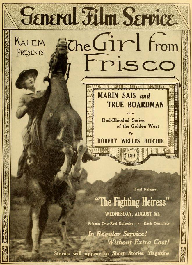 Advertisement for the film serial The The Girl from Frisco (1916) in the July 1916 The Moving Picture World.